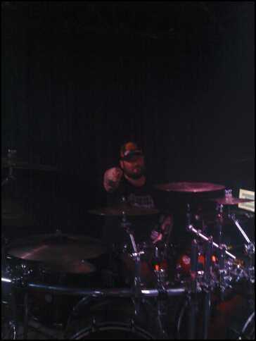 Phil Gonyea performing at Tomcats West in Fort Worth, Texas in October 2012